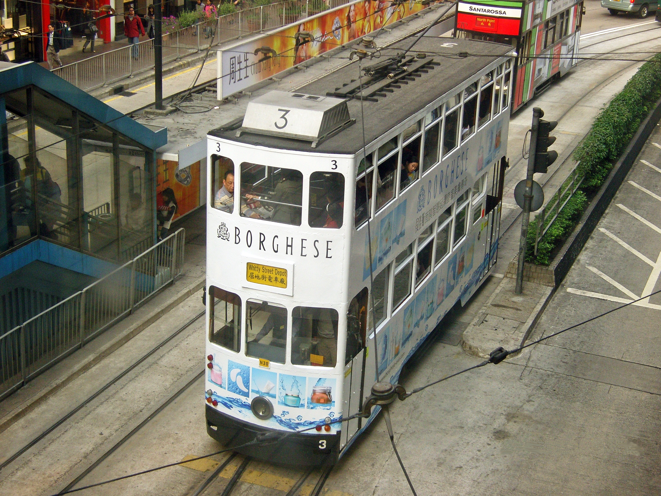 China (Hong Kong): Hong Kong tram #3